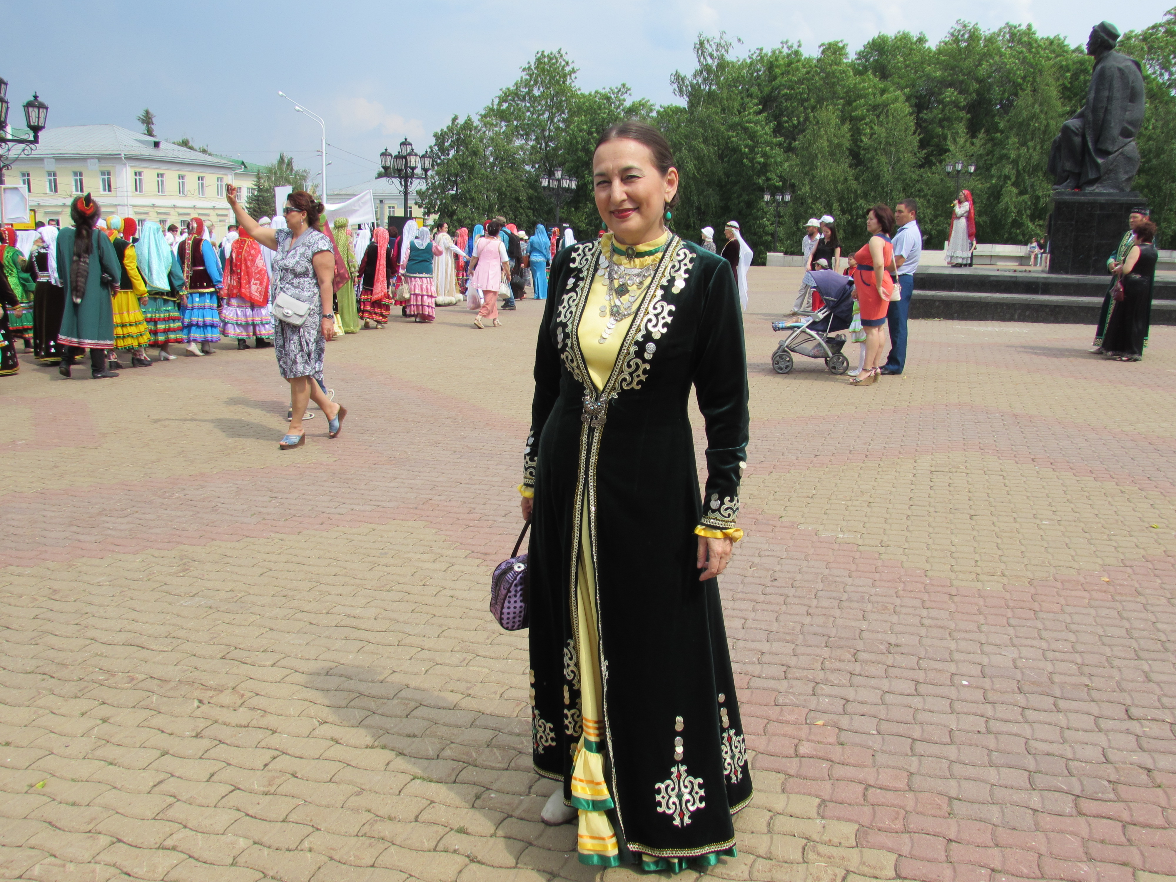 Holiday Bashkir national costume